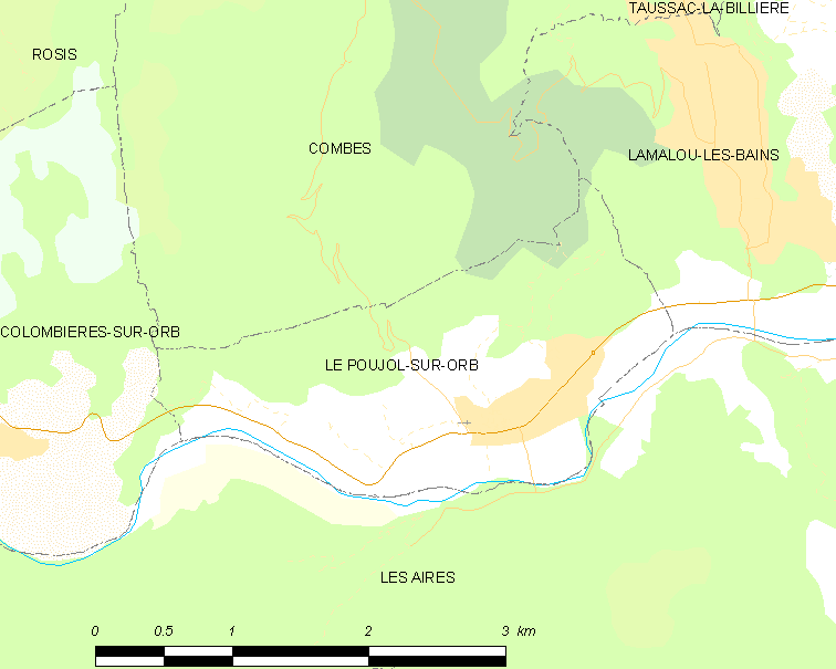 Map commune FR insee code 34211.png - Le Poujol-sur-Orb